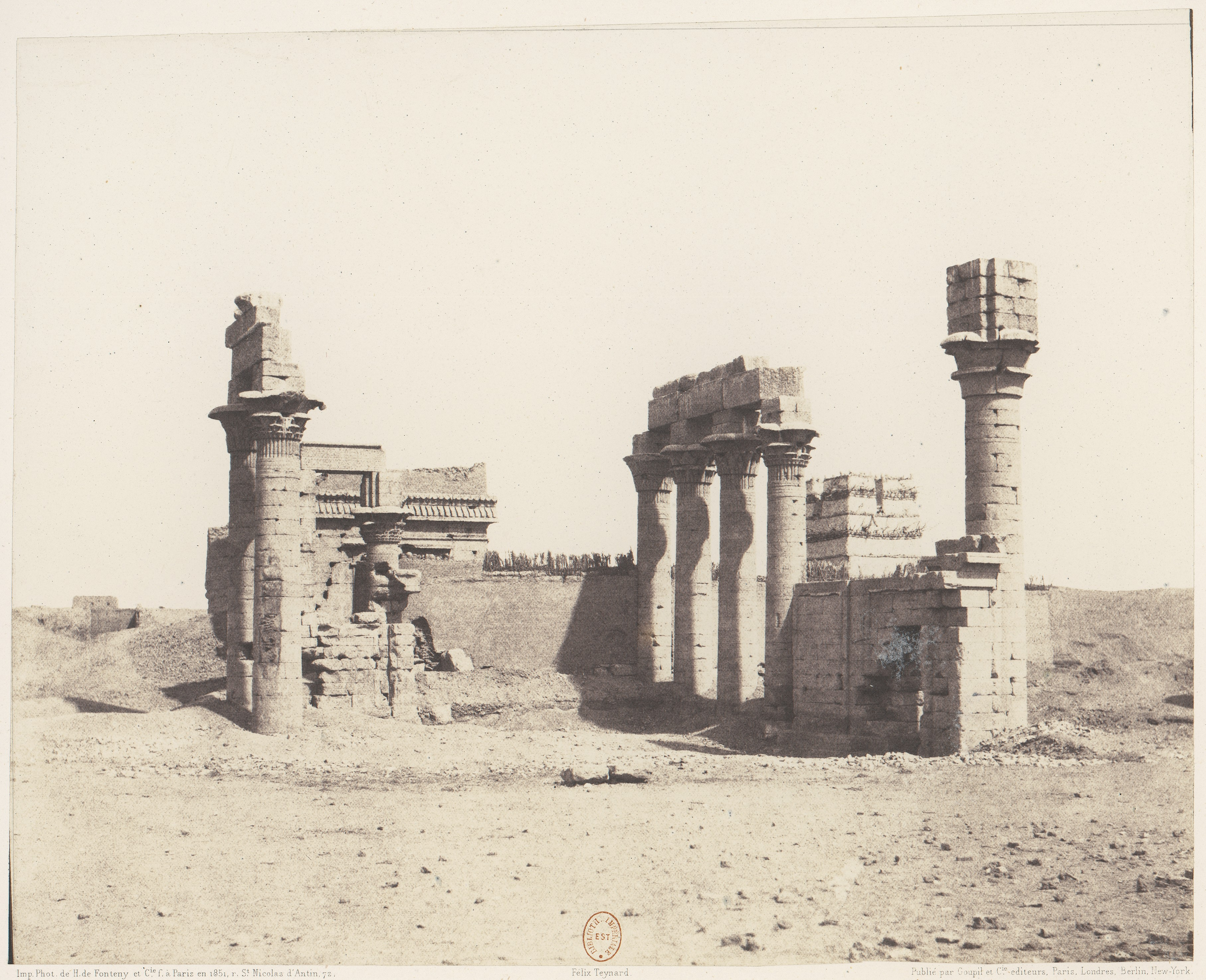 Photograph